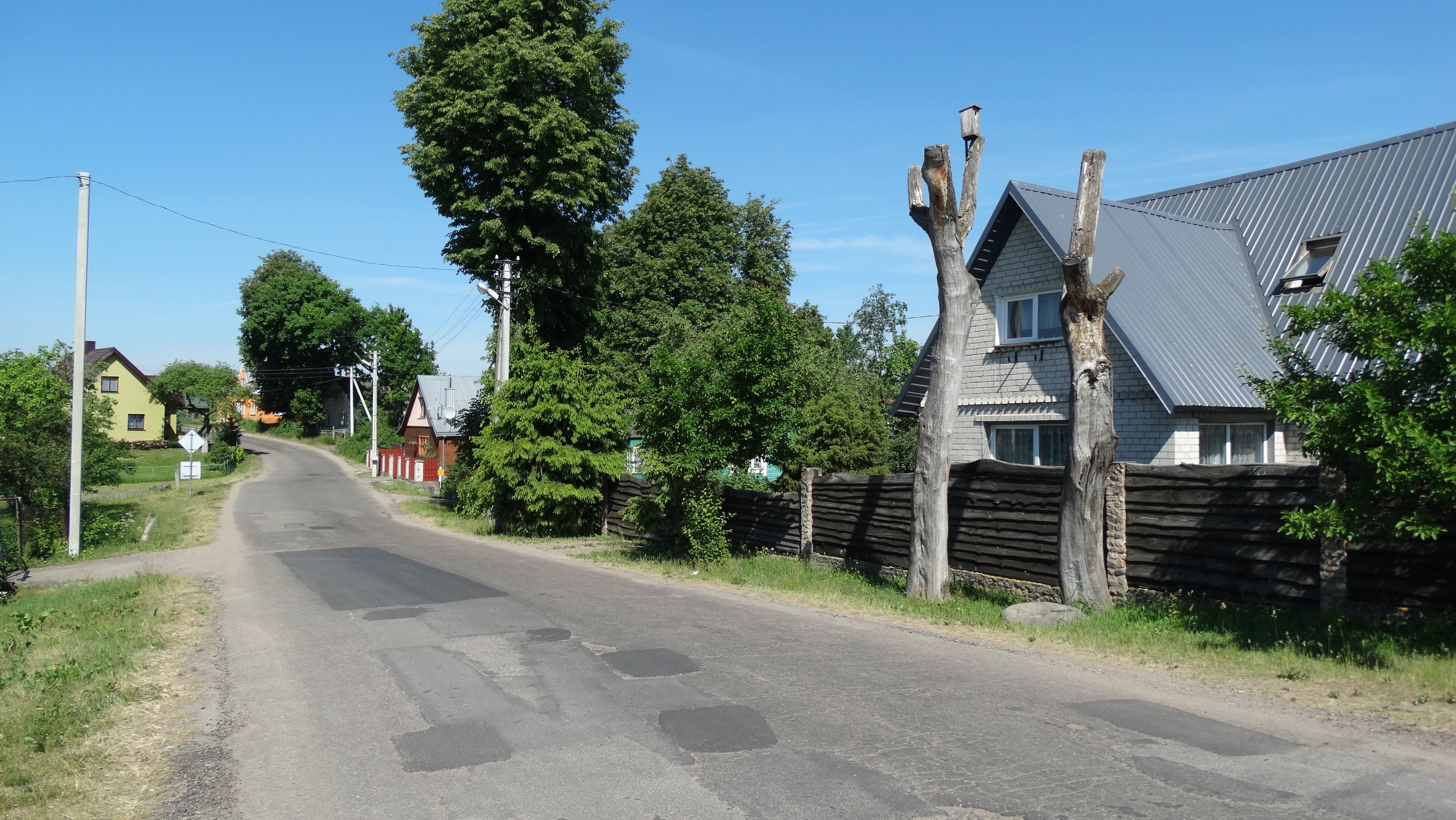 Dobromislė, Vilnius District, Lithuania